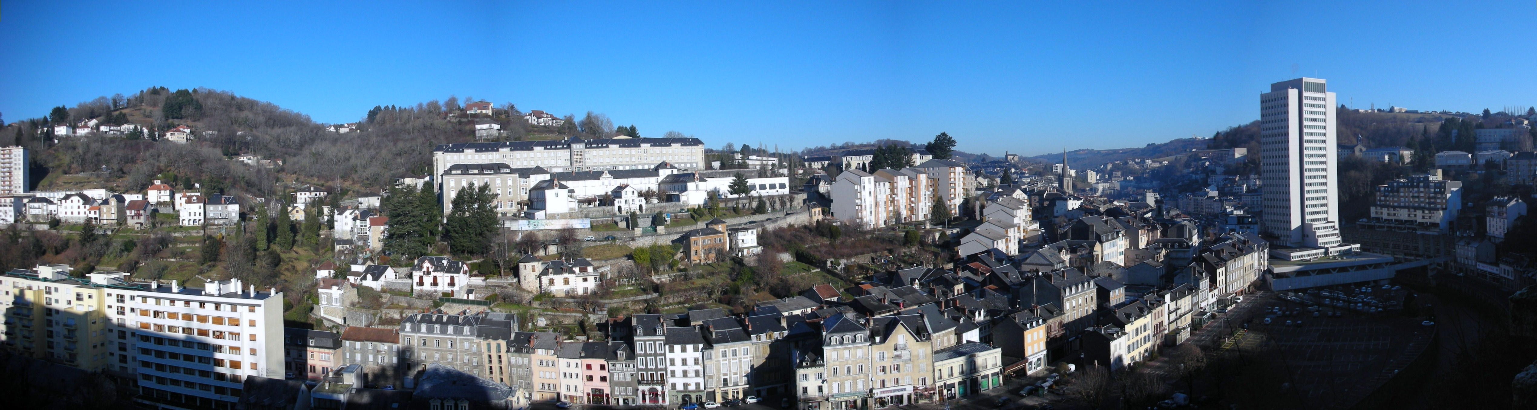 Tulle (French town), as seen on January 1st, 2008